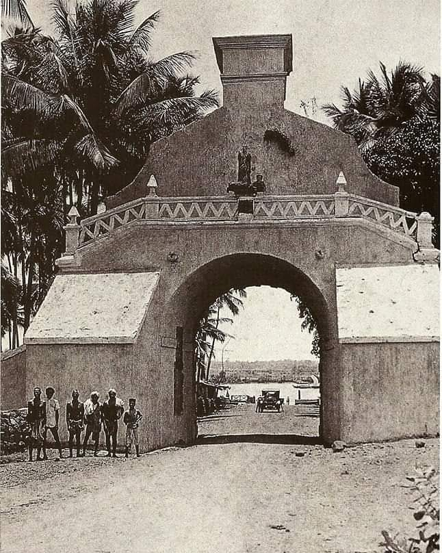 Arch of the Viceroys, Velha Goa 1940s